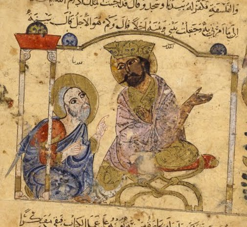 Kalila wa Dimna. Version circa 1200 Syria.